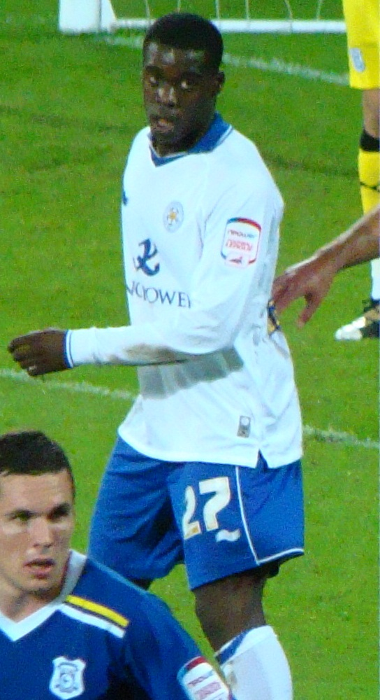 21/09/11 Cardiff V Leicester, Carling Cup, Cardiff City Stadium, Cardiff, Wales (Image cropped from original at Flickr)